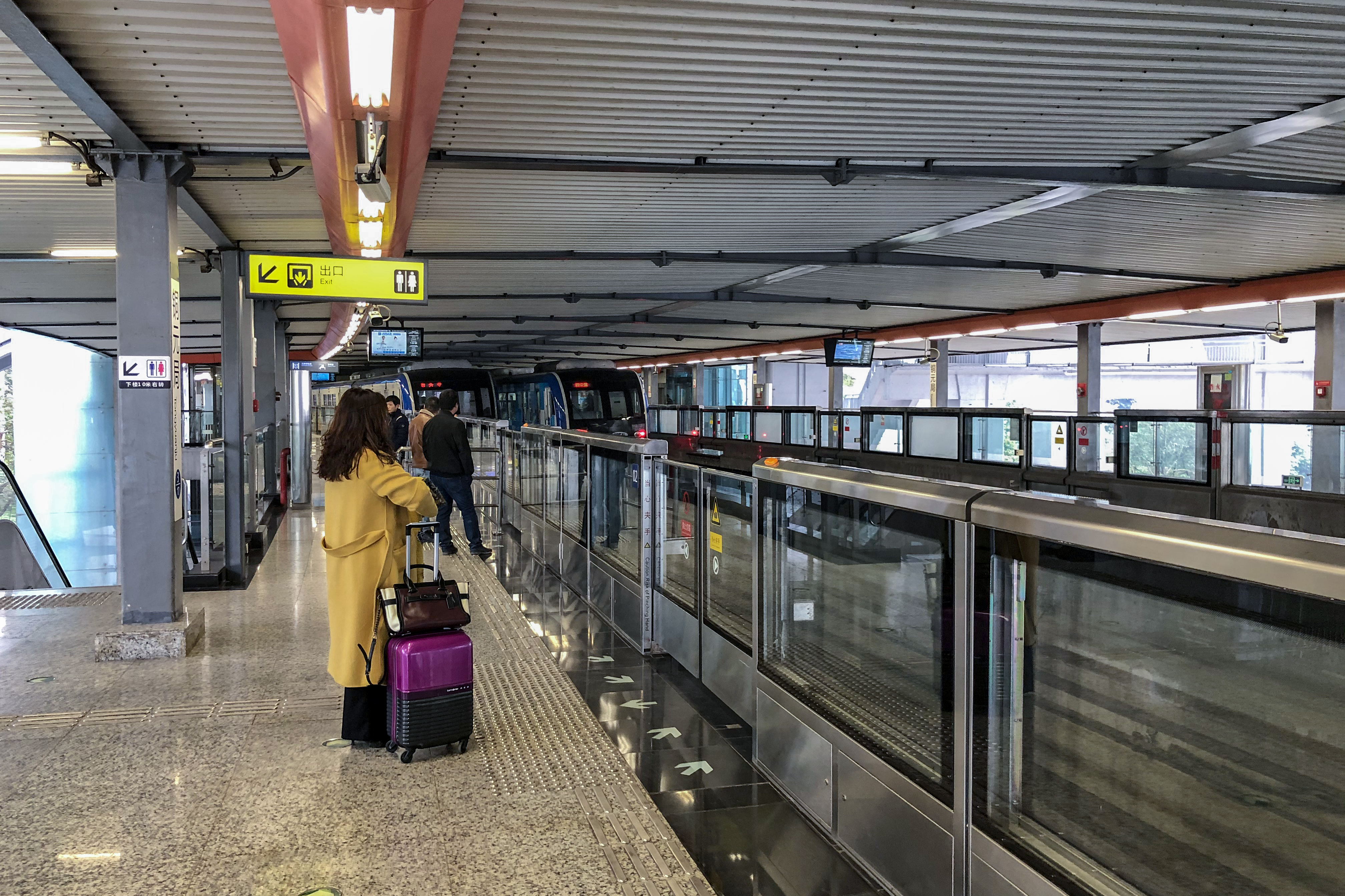 Twin trains at the "mint".